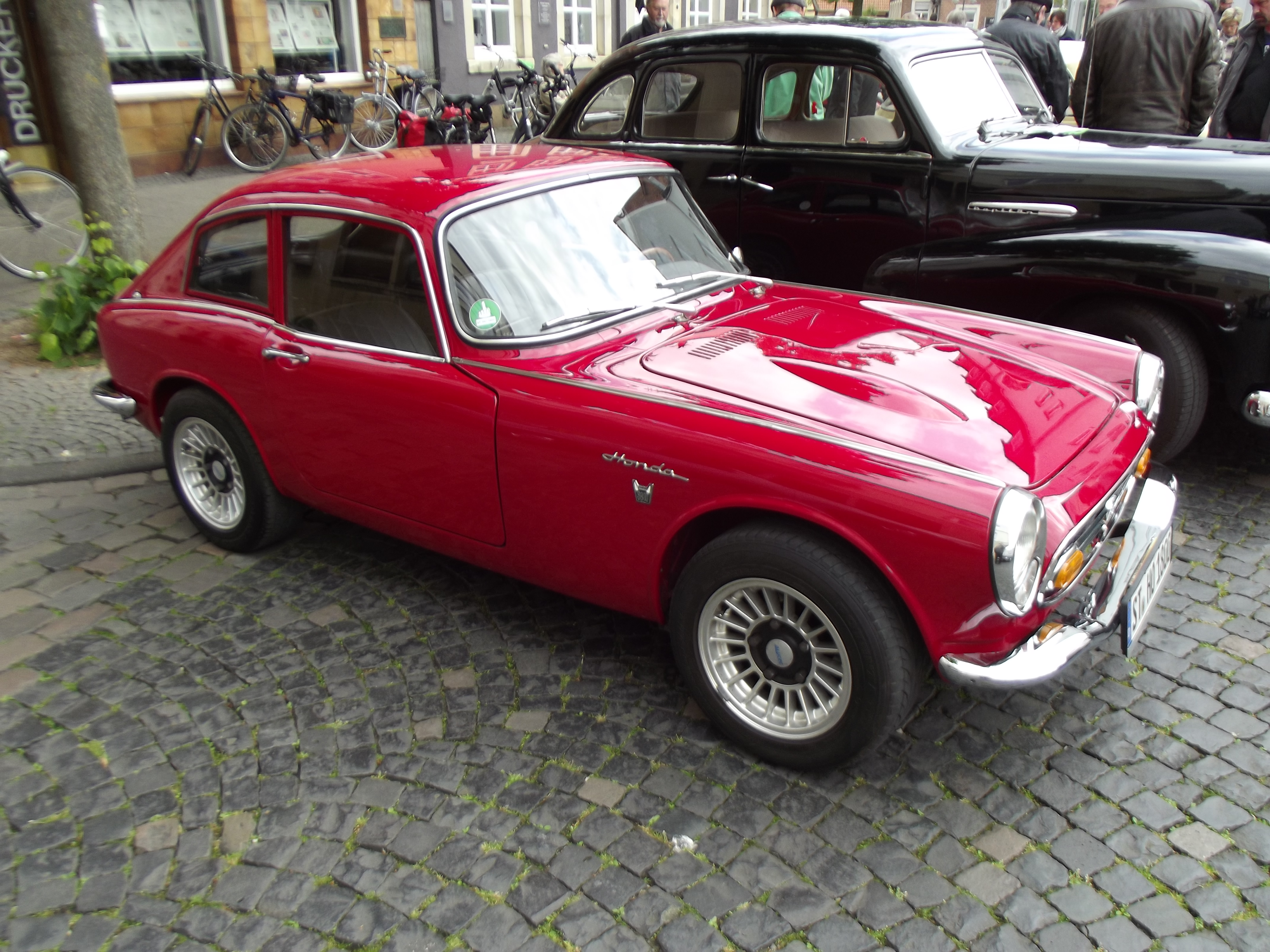 A Honda 600 at a vintage car event in Steinfurt (Germany) in May 2014